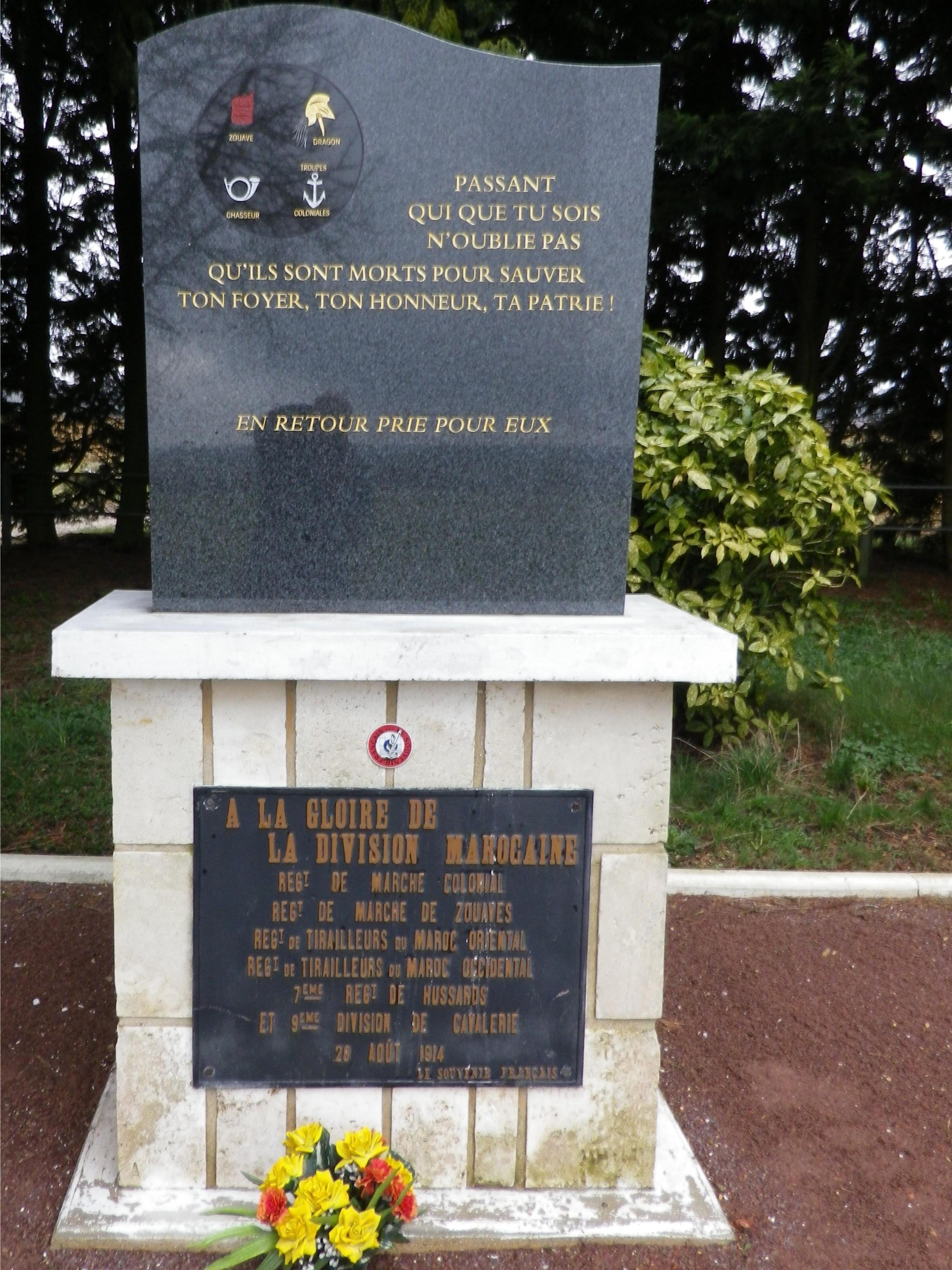 Monument Fosse à l'Eau